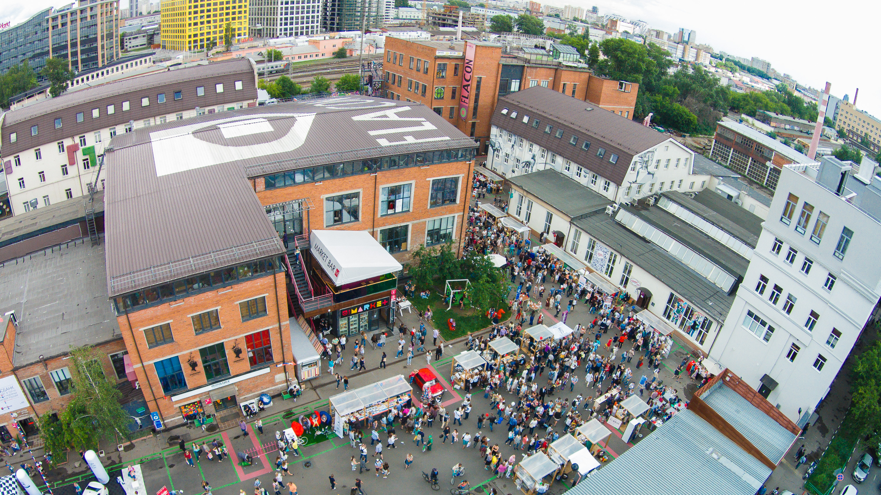 Flacon Design Factory